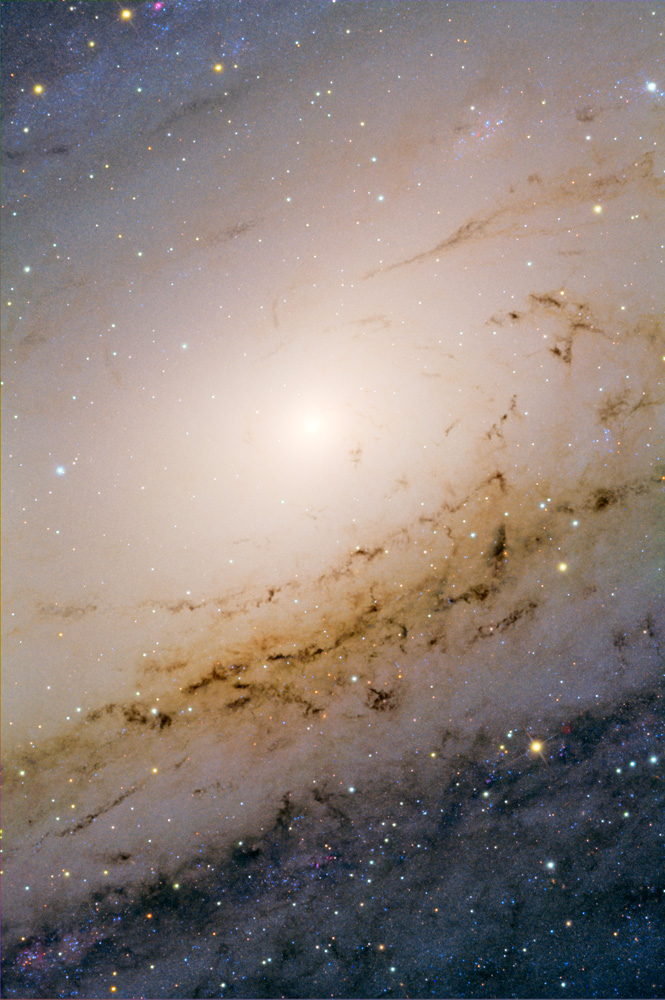 Deep exposures of Galaxies using the 0.8m Schulman Telescope at the Mount Lemmon SkyCenter Credit Line & Copyright Adam Block/Mount Lemmon SkyCenter/University of Arizona